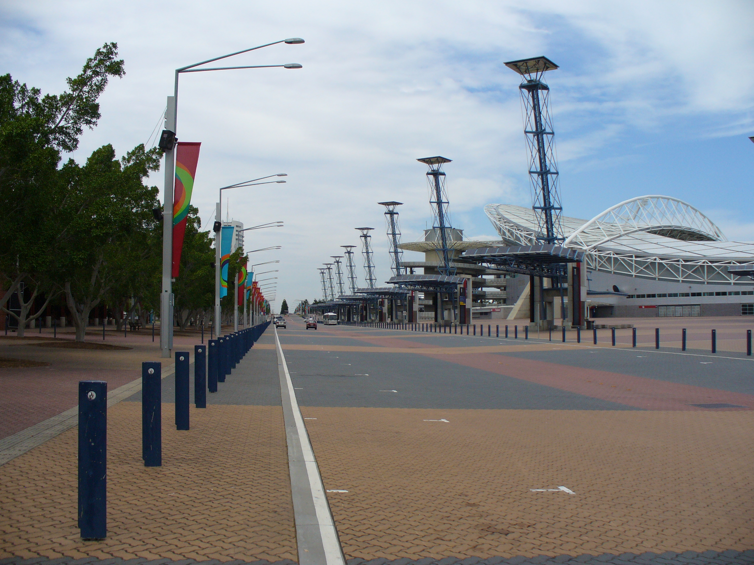 Olympic Boulevarde, Homebush Bay, Sydney